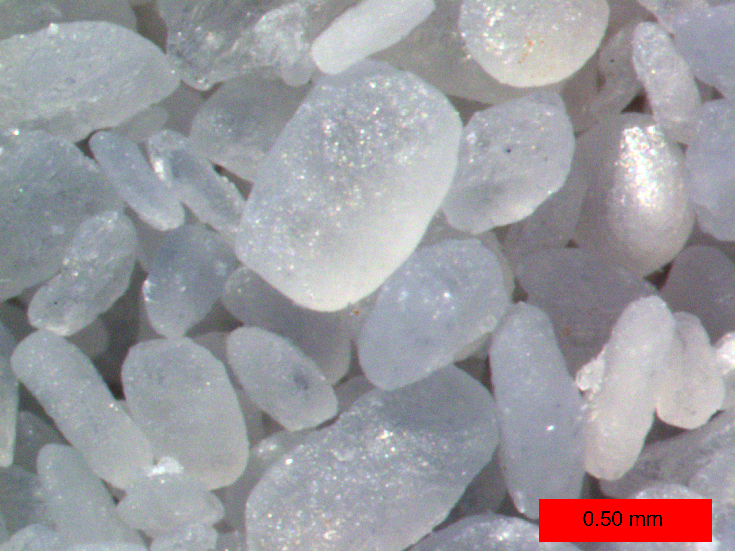 Gypsum sand from White Sands National Monument, New Mexico. Photograph by Mark A. Wilson (Department of Geology, The College of Wooster).